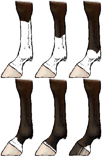 Different kinds of horsemarkings on the legs